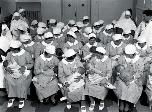 balie